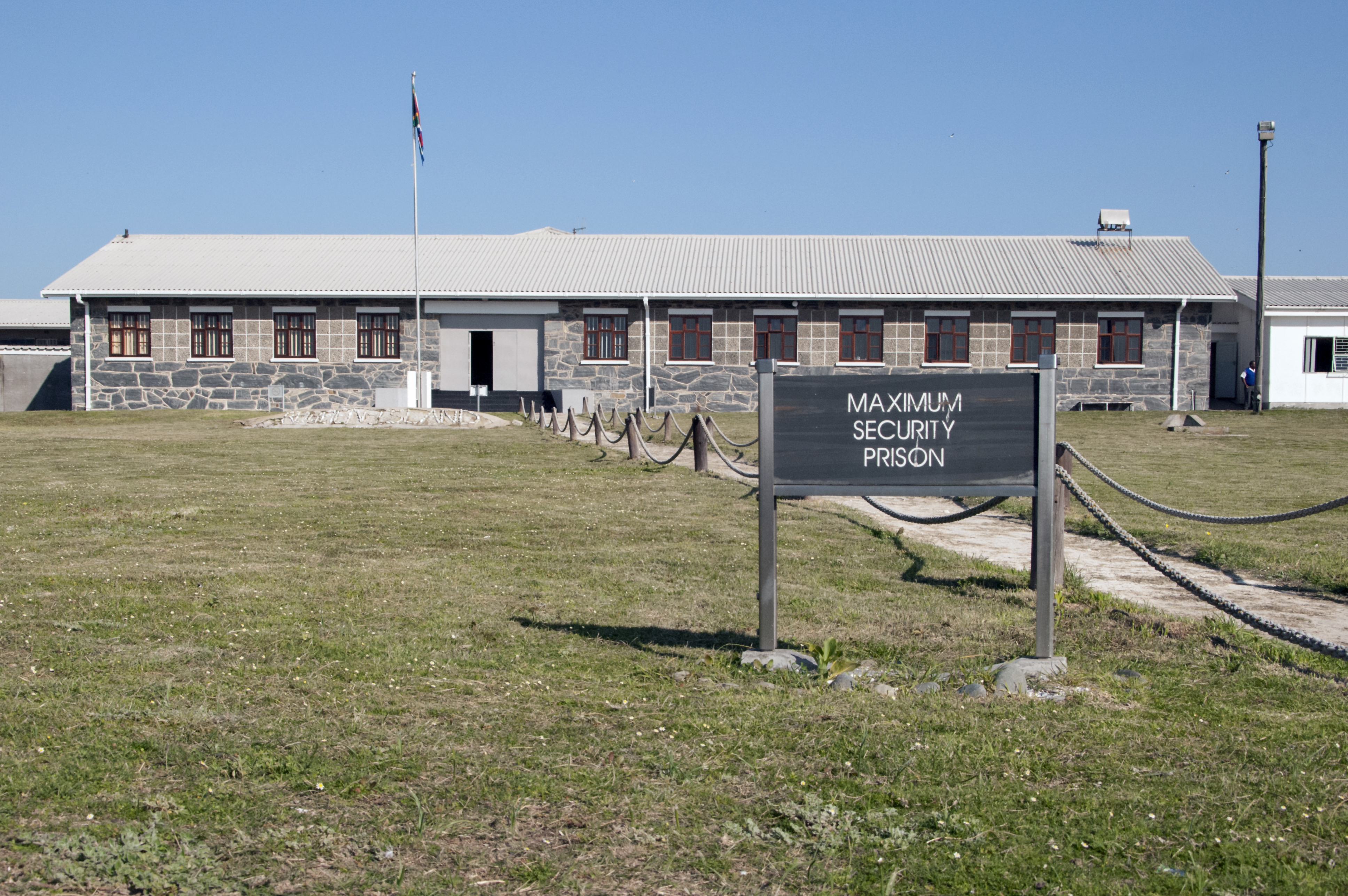 Maximum Security Prison, Robben Island This place is a UNESCO World Heritage Site, listed as Robben Island.